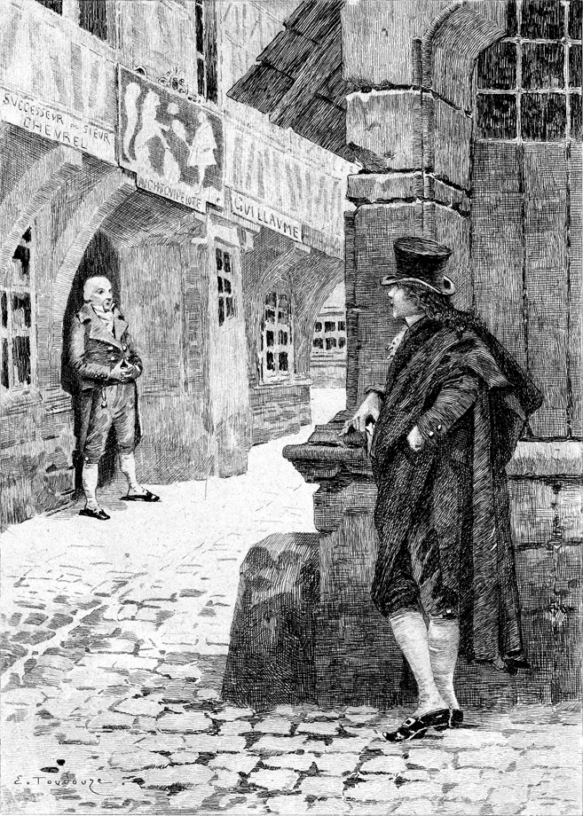 Title page of Honoré de Balzac's The House of Cat and Racket (1829).